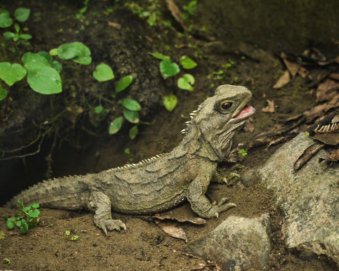 Tuatara are endemic to New Zealand. They grow very slowly, live to over 100 years old and are the only survivors of an ancient group of reptiles which roamed the earth, along with the dinosaurs, over 200 million years ago. Tuatara are classified as an endangered species and are now found in the wild mainly on over 30 predator-free off-shore NZ islands. Photographed at Nga Manu Reserve near Waikanae.